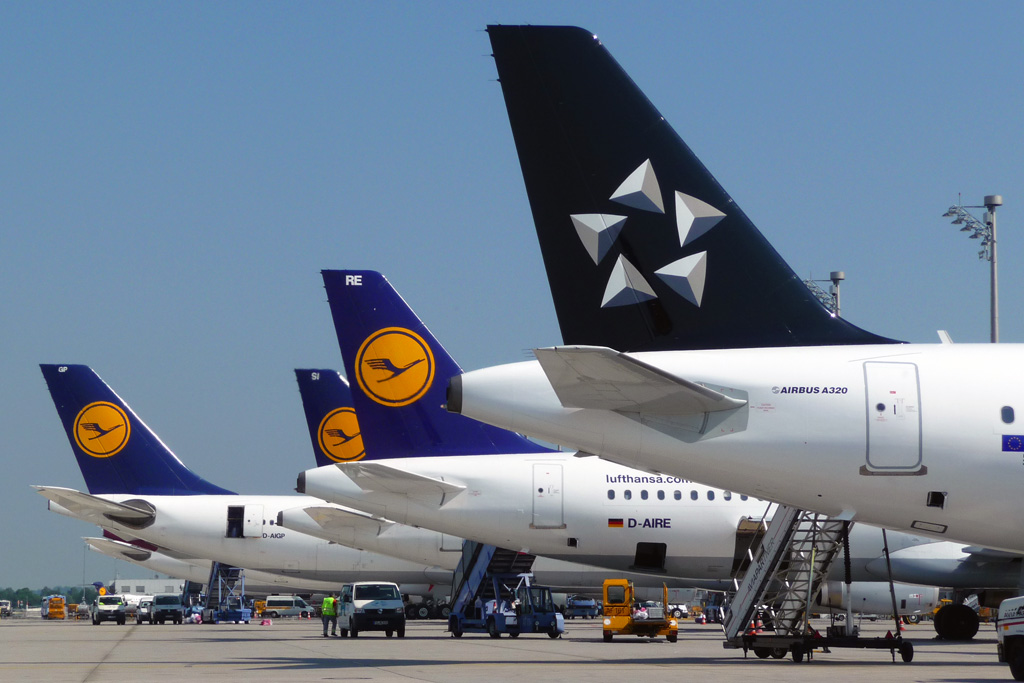 An Aegean Airlines Airbus A320, reg. SX-DVQ, parked on apron 2 of Munich Airport, Germany. In the background are three Lufthansa aircraft, two A321 (D-AIRE and D-AISI) and one A340-300 (D-AIGP).